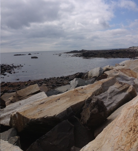 the rocks